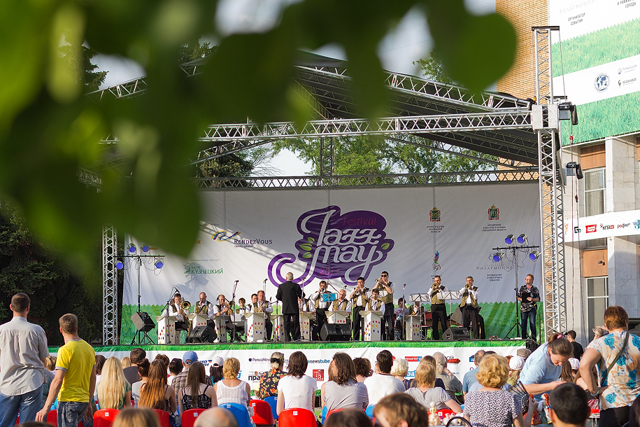 Valery Dmitriev's big band at Jazz May 2013